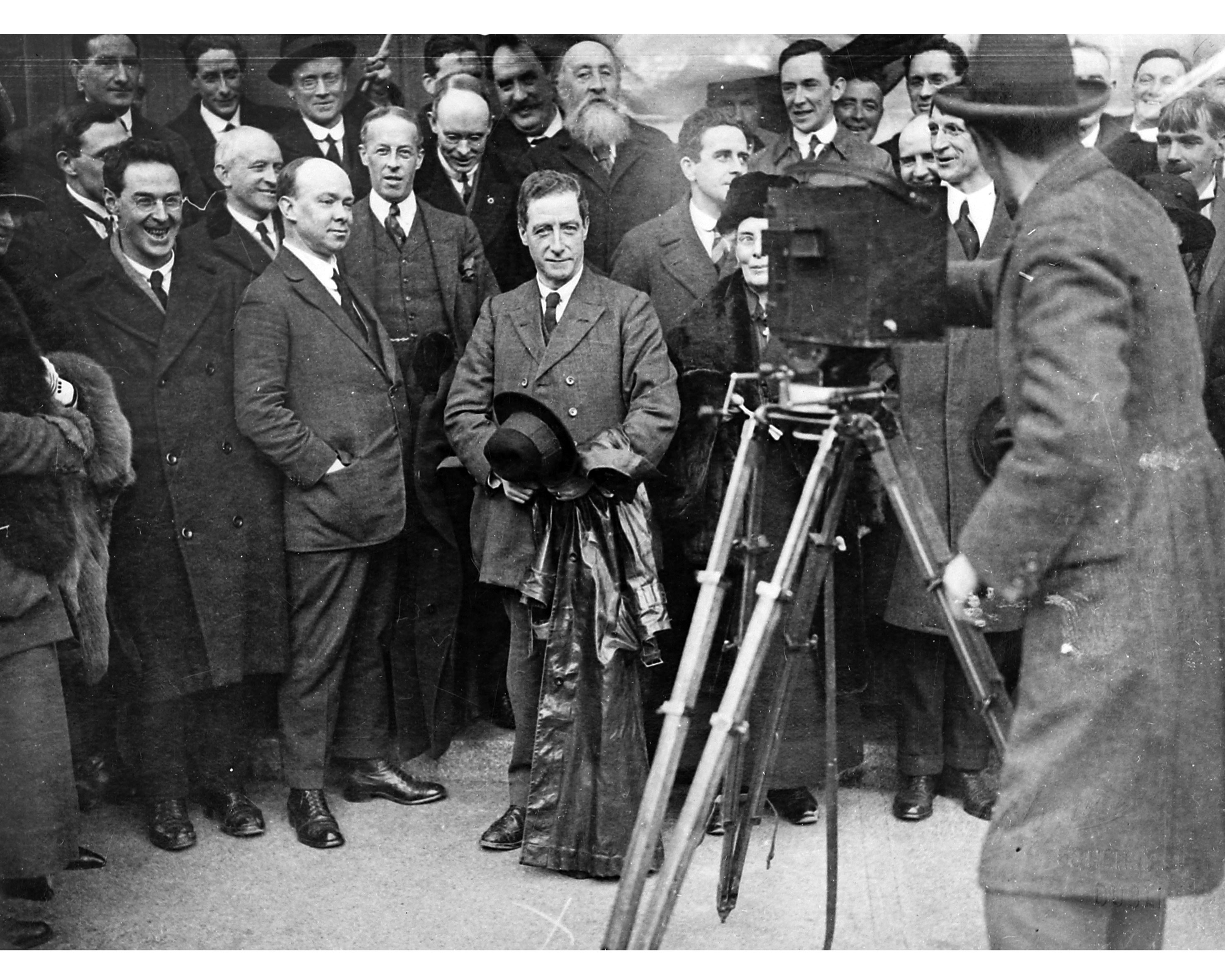 According to our catalogue, this was the Irish Republican Party (Sinn Féin) photographed on Monday, 10 July 1922 presumably in Dublin. However, as Cathal Brugha is present in this photo (thanks to Yellabelly* for identification), and he died on Friday, 7 July 1922 then we need help to ascertain the correct date for this photo. Some of the figures are readily identifiable, most obviously Eamon de Valera captured smiling. That is Margaret Pearse, mother of Patrick Pearse, partially obscured by the newsreel camera, but would like to identify other people. Also, it looks as if the film cameraman may be Gordon Lewis, who by this date was working in Dublin for Pathé Gazette. People identified thanks to you: Cathal Brugha (by Yellabelly*) Count George Noble Plunkett (by Seuss.) Joseph MacDonagh TD for Nth Tipp (by gs2014) Robert Barton (by sensibleken) Date: Tuesday, 10 January 1922 NLI Ref.: HOG235